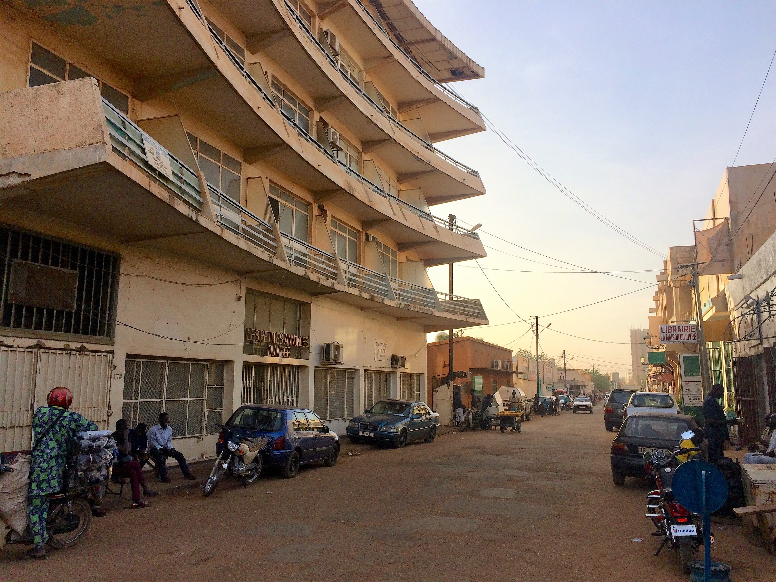 Rue NB-18 in the old part of the city centre of Niamey (Niger), at sunset.